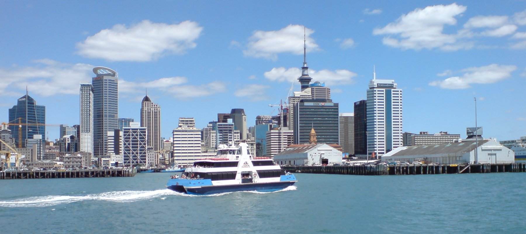 The Kea travelling towards the Auckland Ferry Terminal in Auckland City, New Zealand.